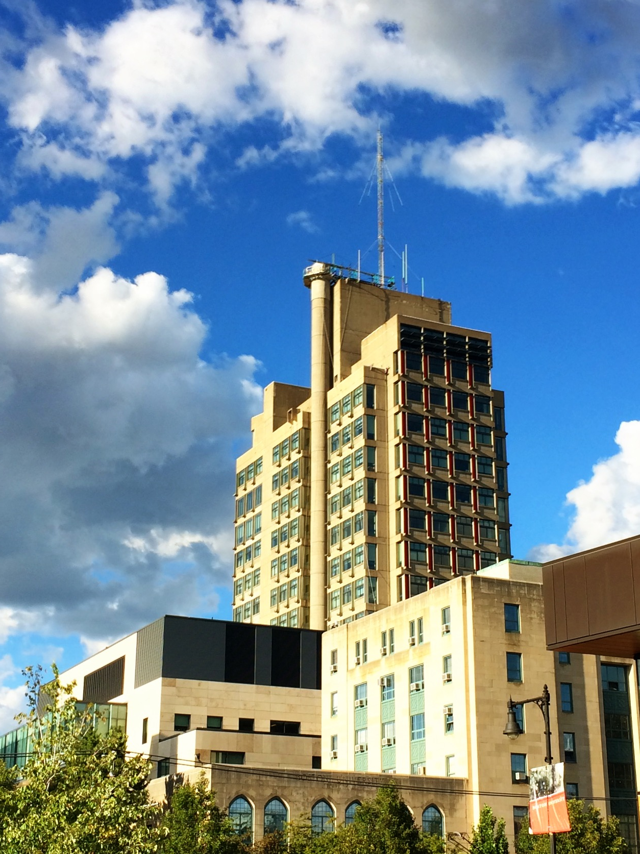 Boston University School of Law encompasses the Sumner M. Redstone Building and 17-story law tower.